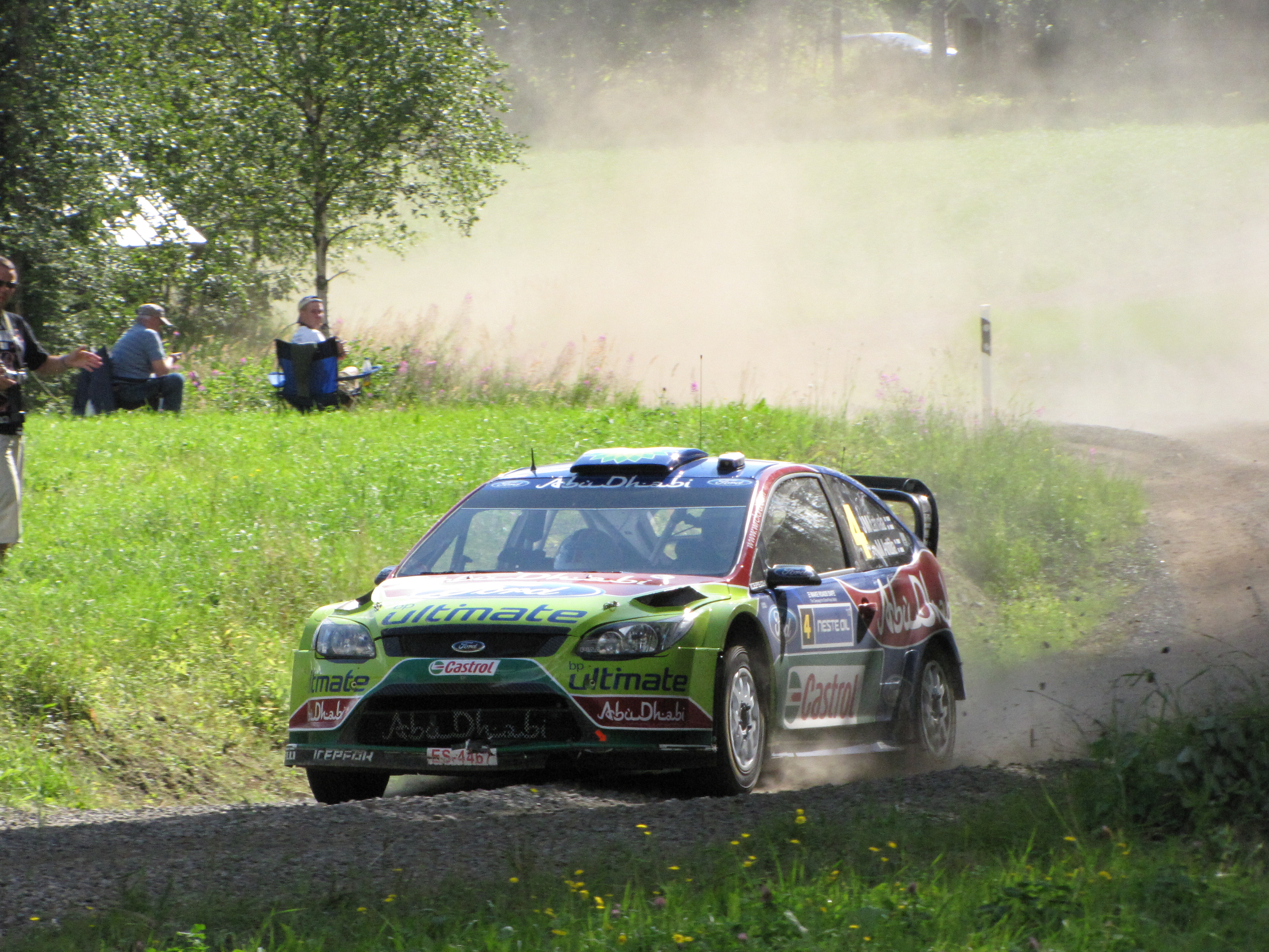 Finnish rally driver Jari-Matti Latvala in Rally Finland 2010 at 2nd Jukojärvi special stage.